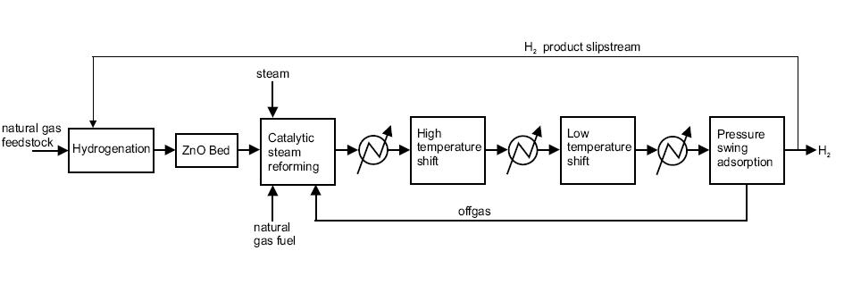 block flow diagram of the steam methane reformer